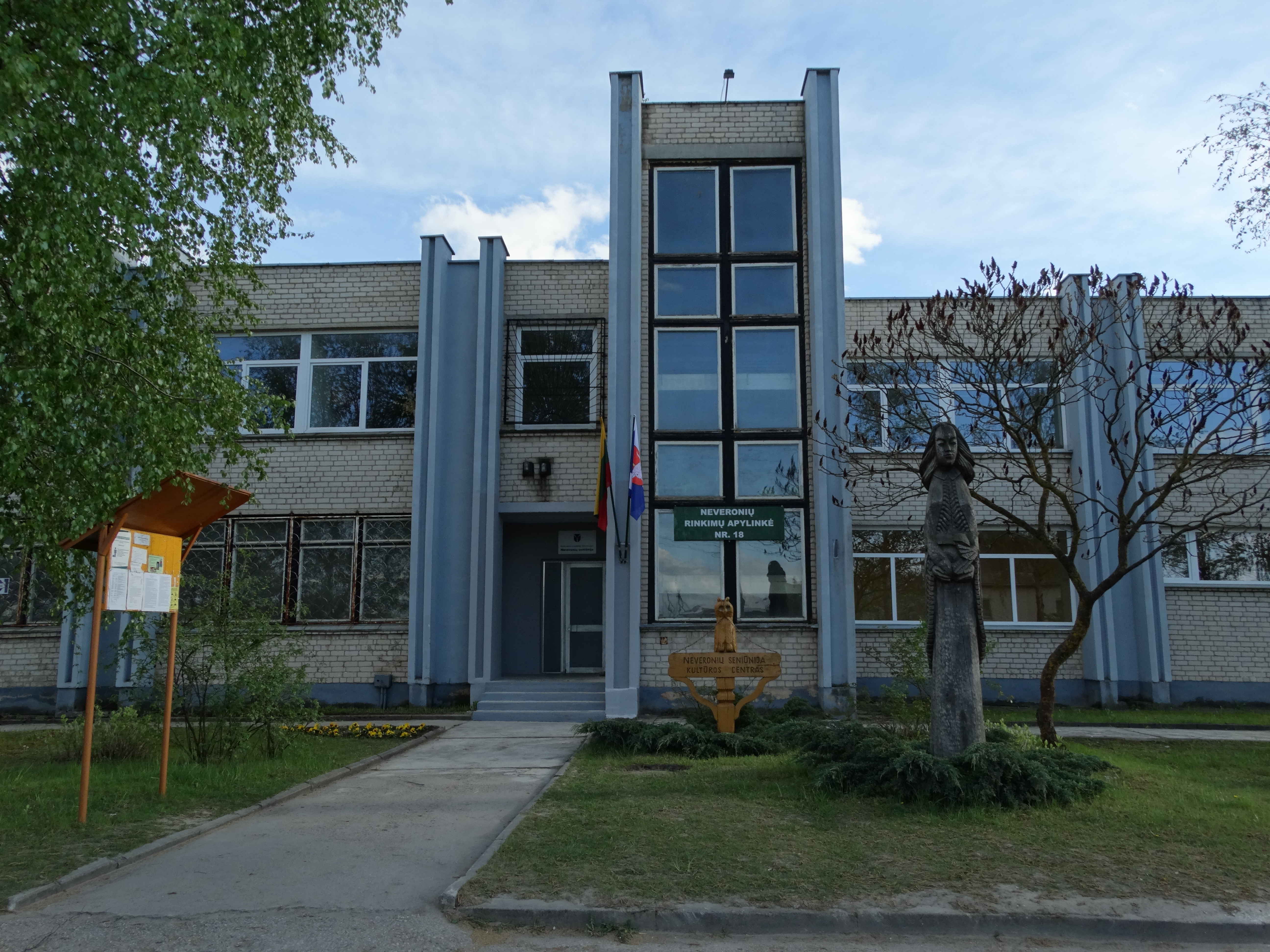 Eldership, Neveronys, Lithuania